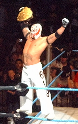 An image of Rey Mysterio as the World Heavyweight Champion. Image was taken at a SmackDown houseshow on June 4, 2006